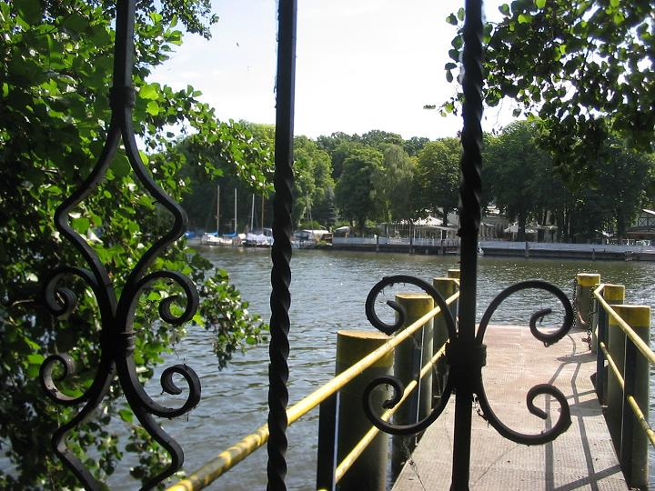 View from the Schildhorn over the Jürgenlanke to the historical and listed restaurant „Wirtshaus Schildhorn“. Schildhorn (german for: shieldhorn) is a headland in the river Havel, situated in the protected area Grunewald in the homonymous quarter Grunewald of Berlins borough Charlottenburg-Wilmersdorf, Germany.